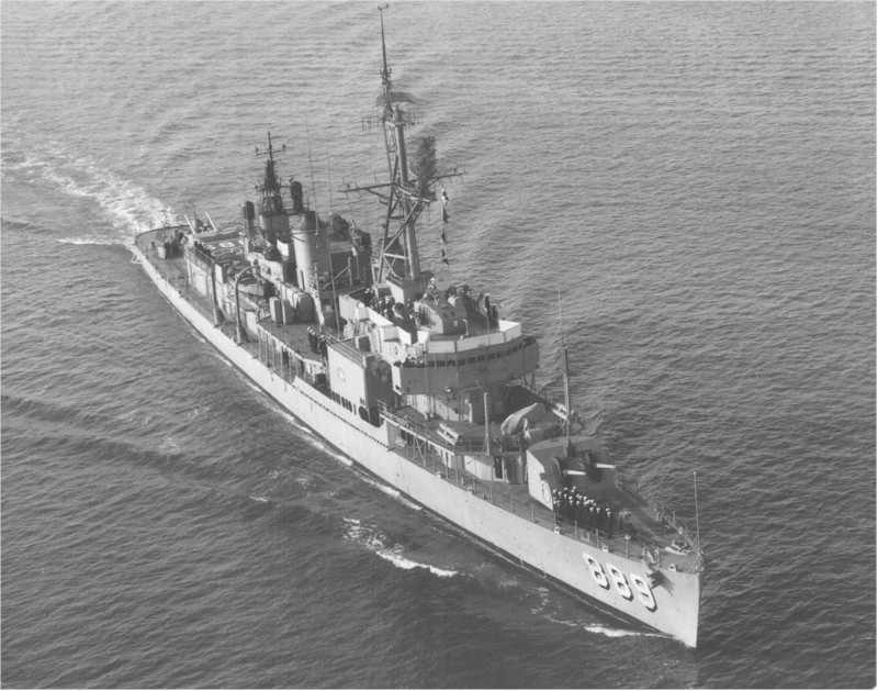 The U.S. Navy destroyer USS O'Hare (DD-889) underway in the Pacific Ocean, in 1966.